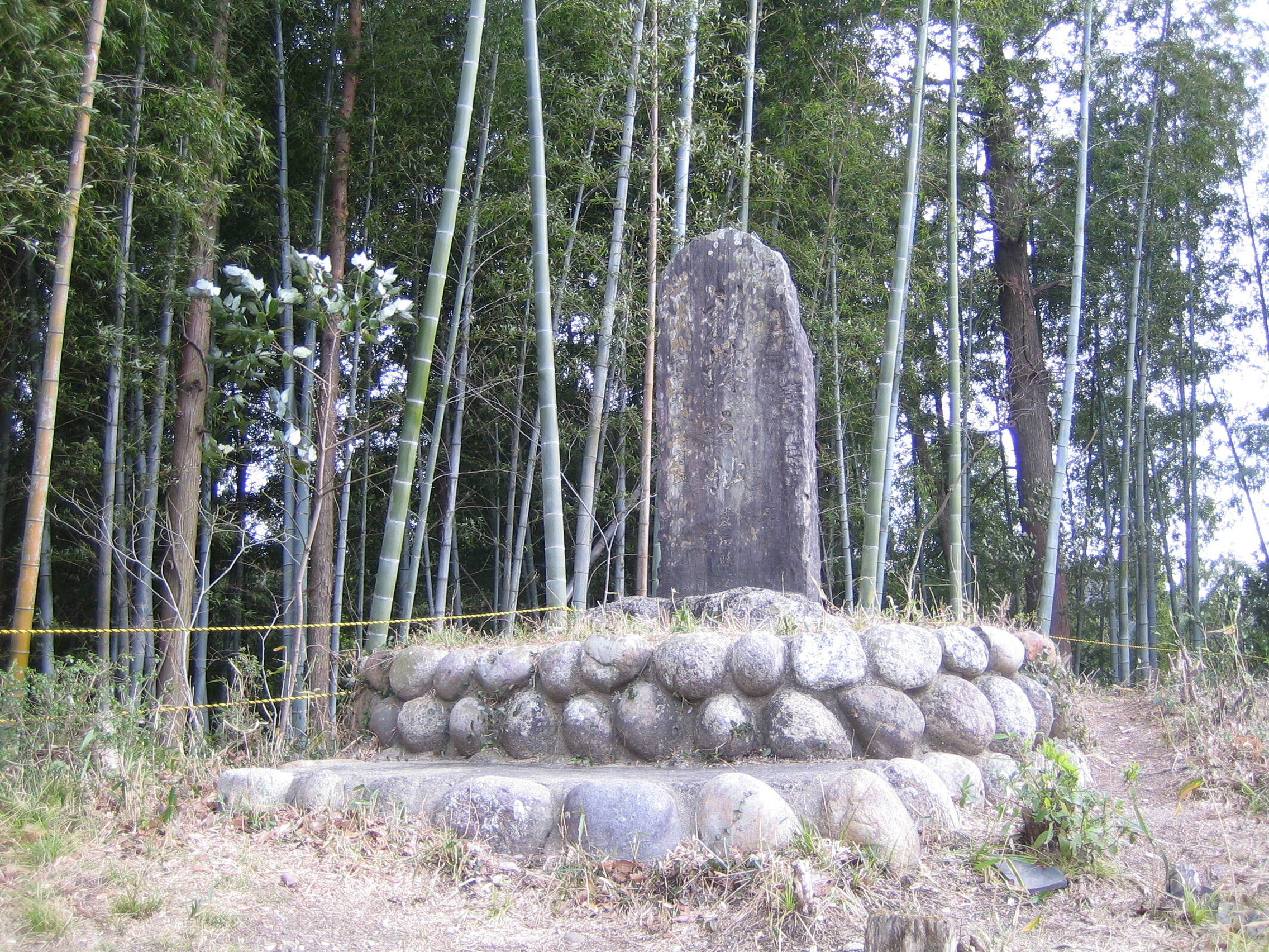 Shinshiro Castle (新城城 Shinshiro-jō), located in Shinshiro, Aichi, Japan